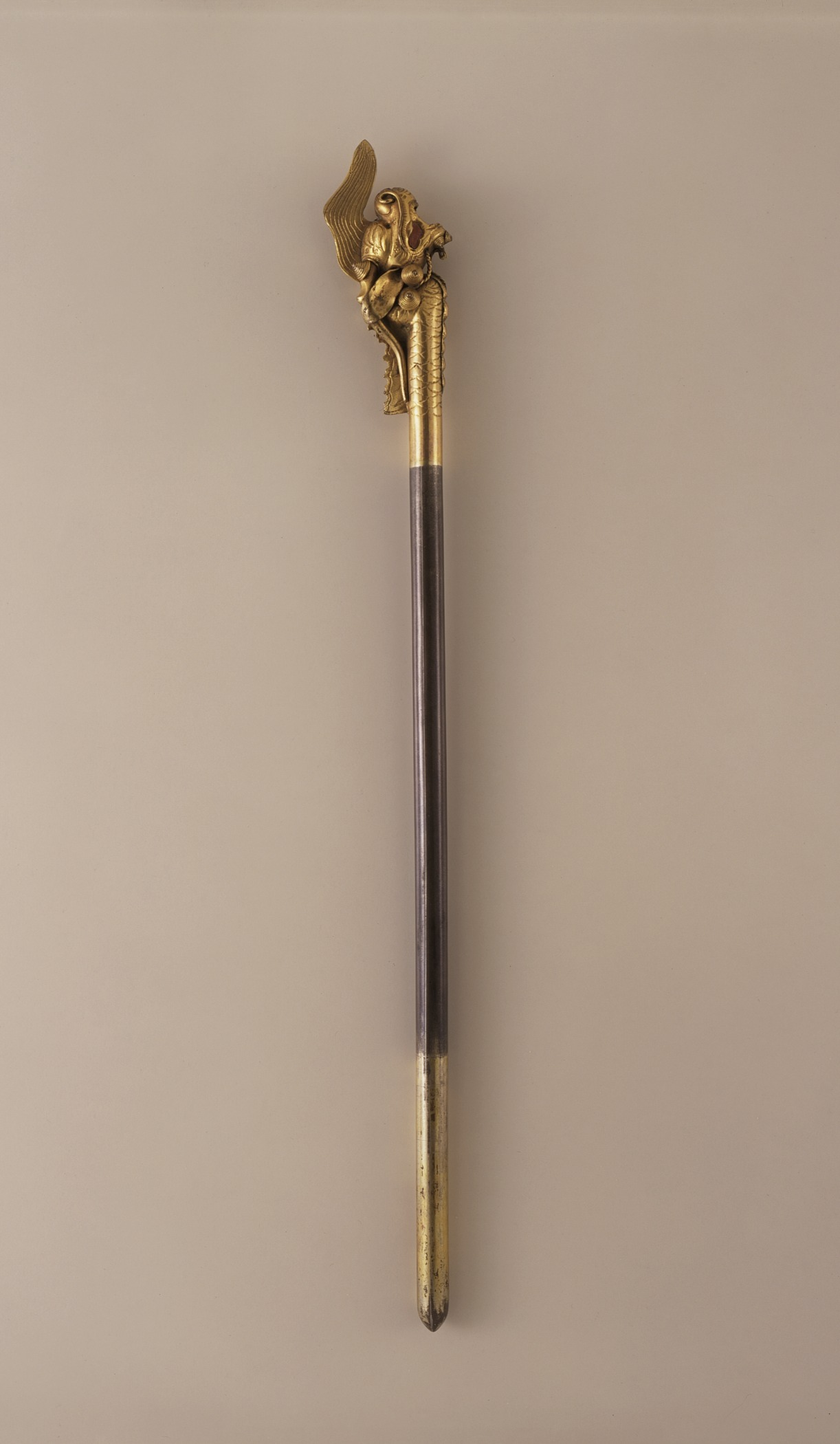 Korea, Joseon dynasty (1392-1910), 19th century Jewelry and Adornments; pins Silver-plated cast bronze with gilding Purchased with Museum Funds (M.2000.15.192) Korean Art